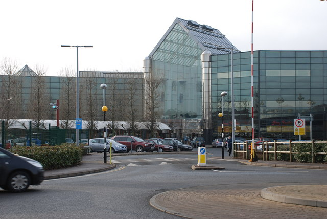 Merry Hill Shopping Centre A view from Central Way.